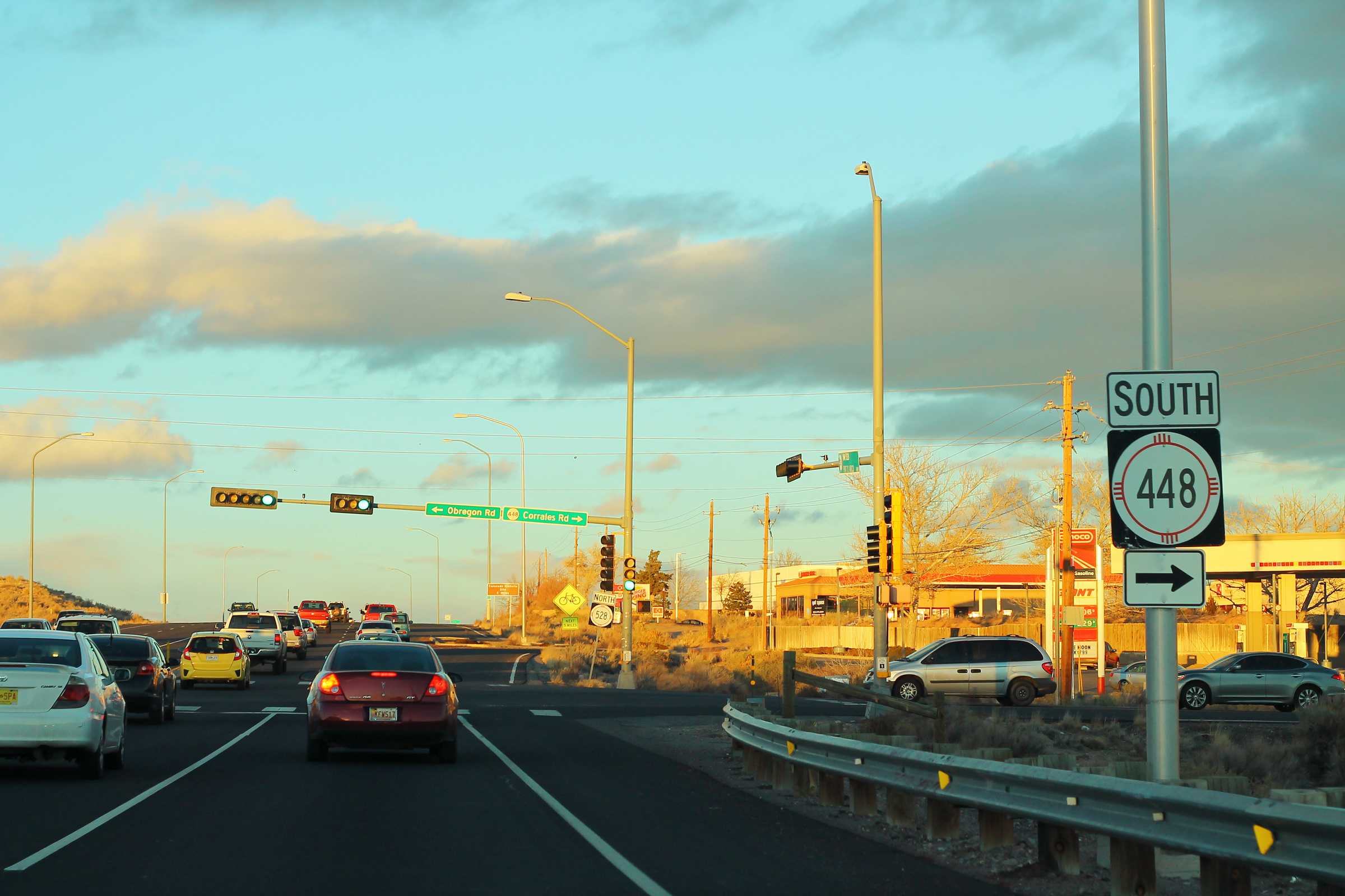 NM528wRoad-NM448sSign